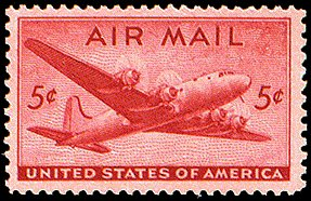 September 26, 1946 || 5¢ CarmineTemplate:Usams2 || DC-4 Skymaster || C3222778, 22779